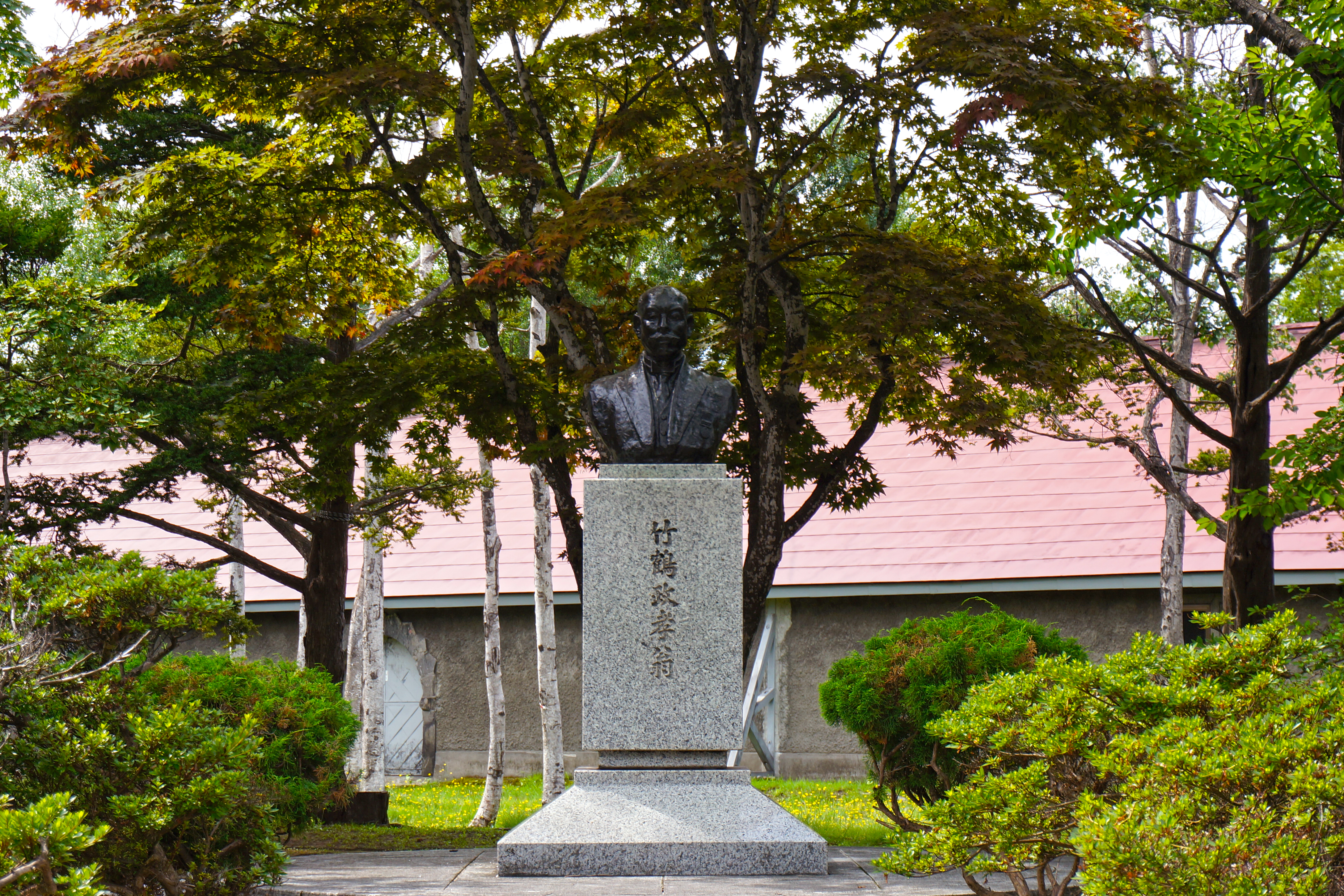 Nikka Wisky Yoichi Distillery in Yoichi, Hokkaido prefecture, Japan.